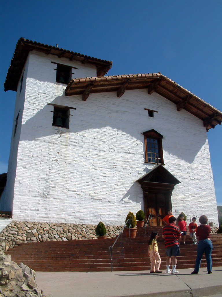 Mission San José (built 1797) — in Fremont, California. Photo taken by Lou Huang on March 6, 2004.